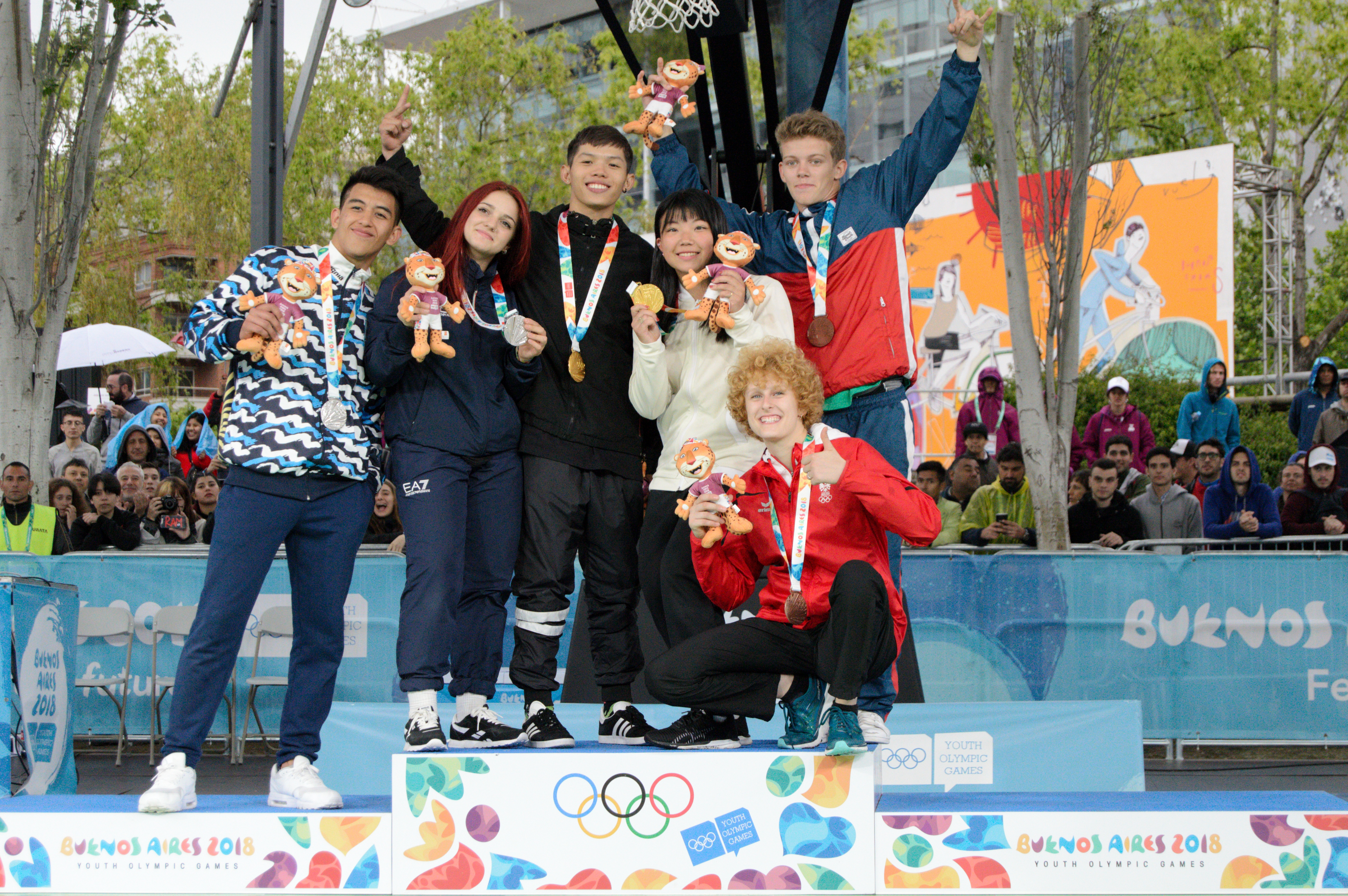 Victory ceremony of the breaking mixed international tournament of the 2018 Summer Youth Olympics.